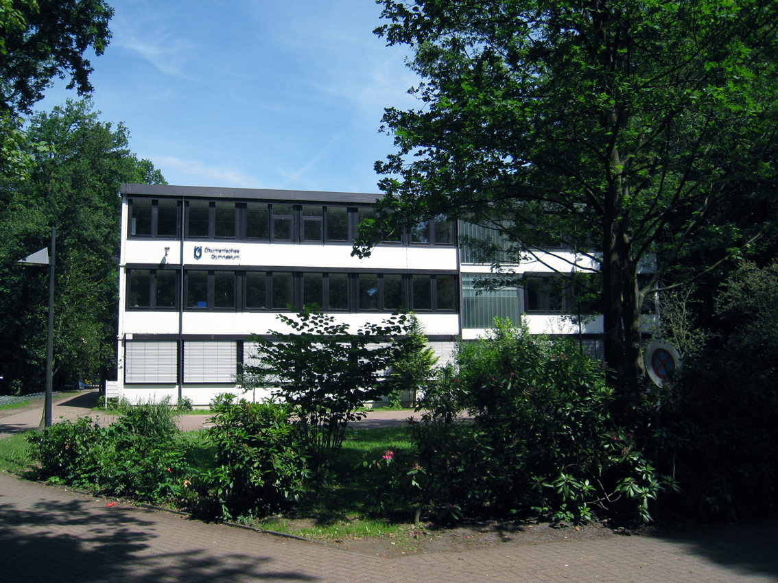 The privat school Ökumenisches Gymnasium in Oberneuland in Bremen, Germany.